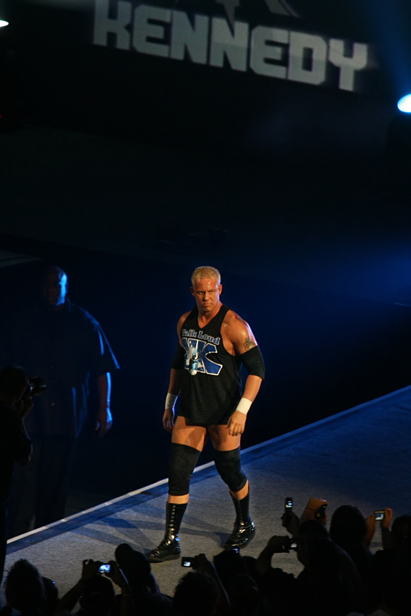 Mr. Kennedy (Ken Anderson) during his ring entrance. Taken during the WWE Raw - Survivor Series Tour, at Rod Laver Arena, Melbourne Park, Melbourne, Australia. Kennedy wrestled Bob 'Hardcore' Holly; the match was won by Kennedy pinning Holly with a roll-up.